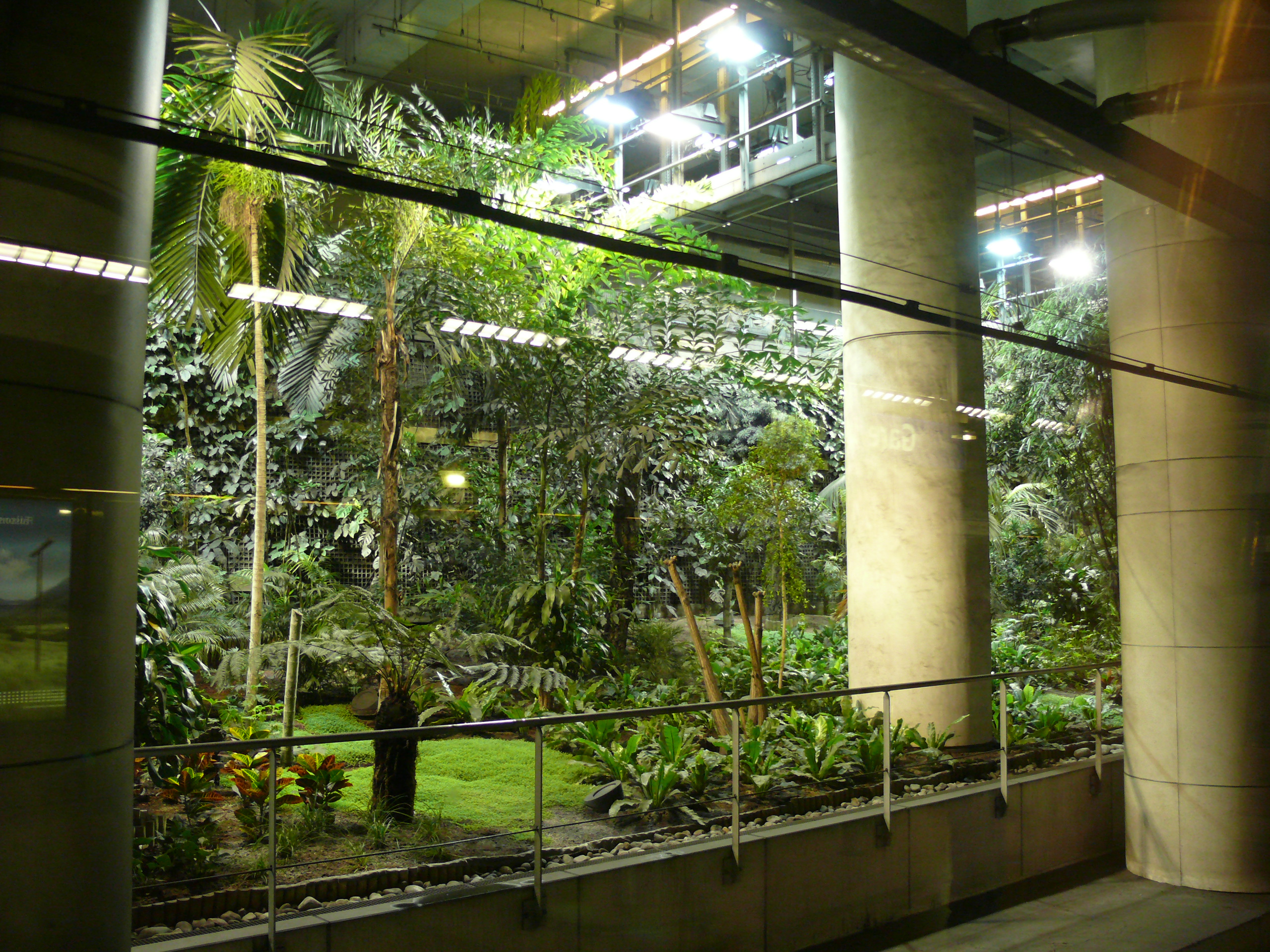 Paris Metro : Line N°14 (Météor) : Exotic garden in station Gare de Lyon